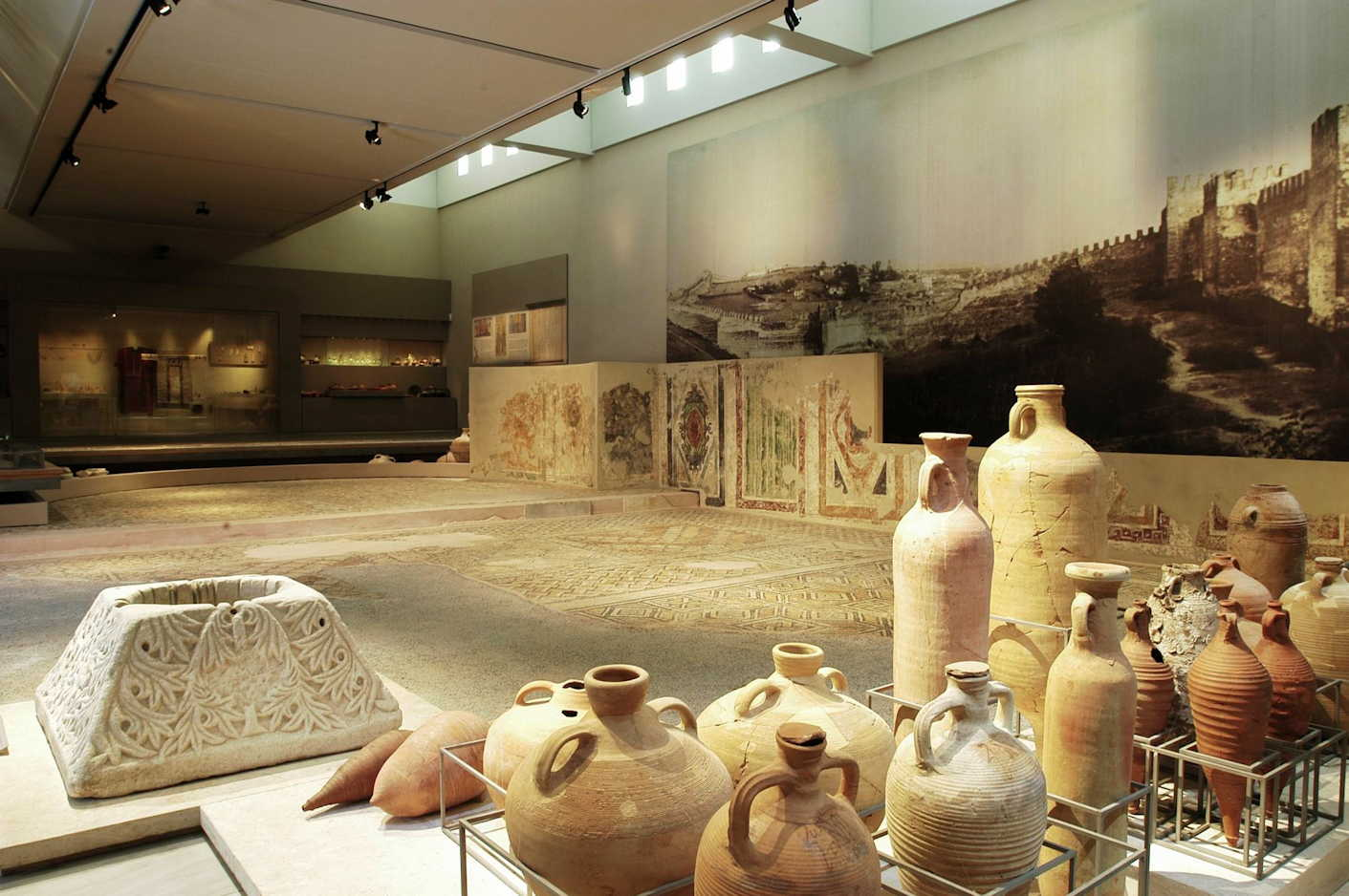 Gallery 2, image from the Museum of Byzantine Culture, Thessaloniki, Central Macedonia, Greece